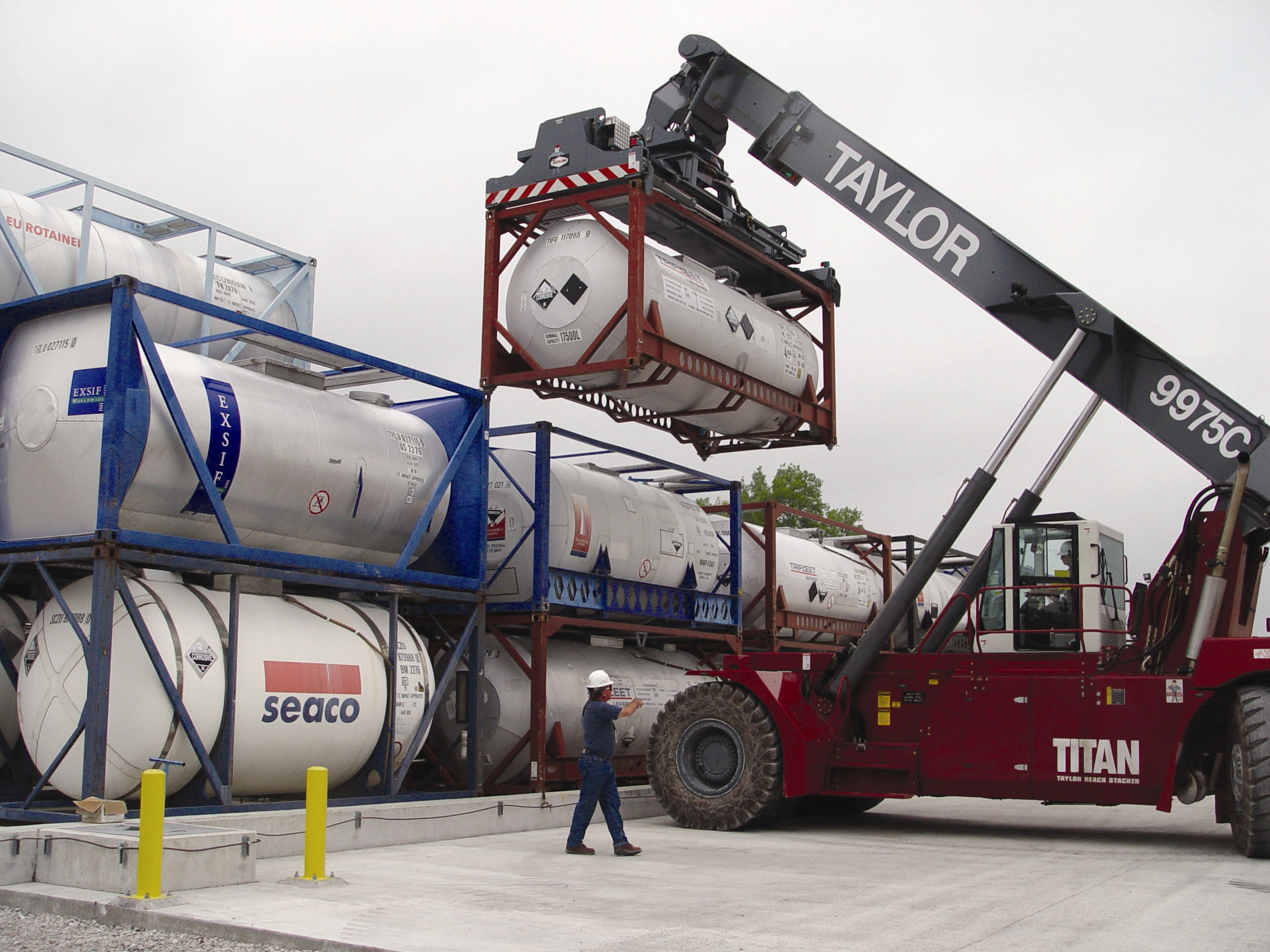 A Newport disposal site employee helped guide a stacker operator as he safely maneuvered an intermodal (ISO) container filled with hydrolysate. The Army completed destruction operations at the Newport Chemical Agent Disposal Facility in August 2008.